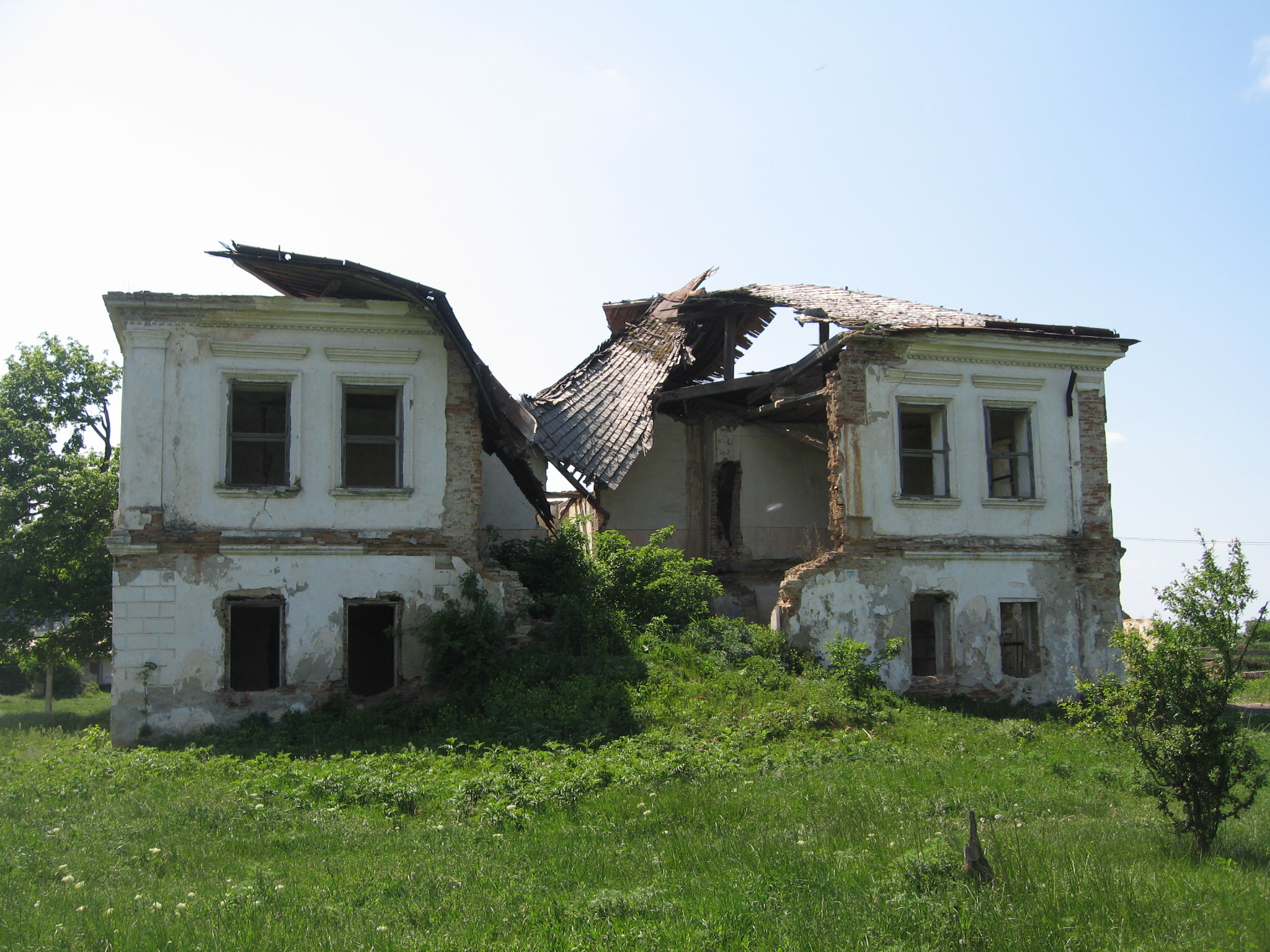 Lordly house of Tupilati